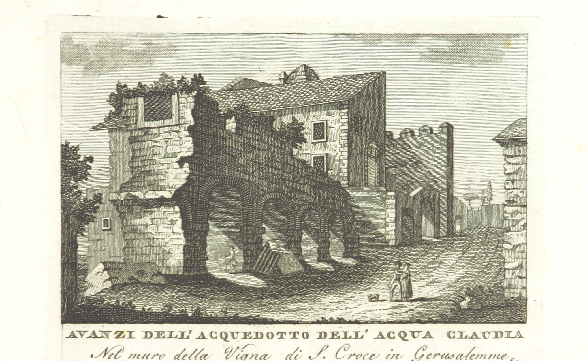 Title: "Vedute antiche e moderne le più interessanti della città di Roma, incise da vari autori, in numero 100. (Explication ... rédigée ... par E. Piale.)", "Appendix. Topography" Contributor: PIALE, Stefano. Author: Rome (Italy) Shelfmark: "British Library HMNTS 10131.h.1." Page: 77 Place of Publishing: Rome Date of Publishing: 1820 Publisher: V. Monaldini Issuance: monographic Identifier: 003147404